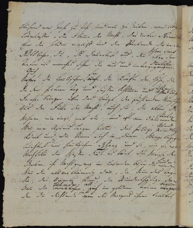 Manuscript of Friedrich Hölderlin: Der Archipelagus, page 2. From Homburg